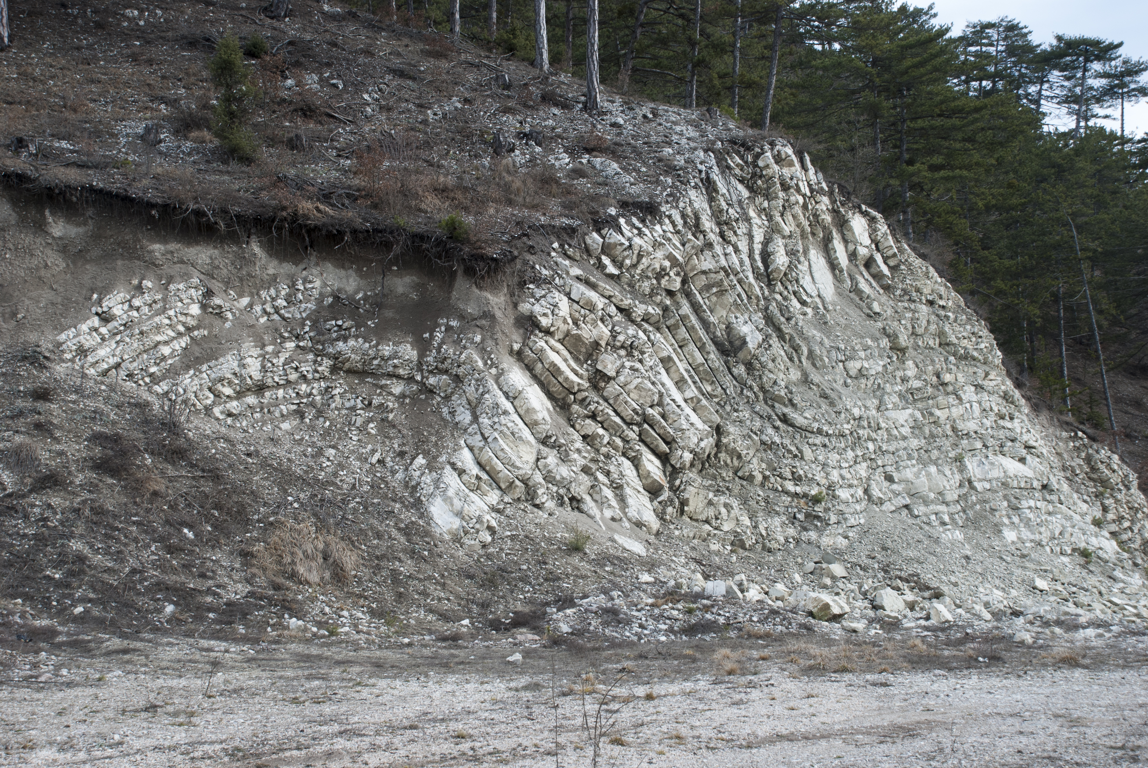 Anticline